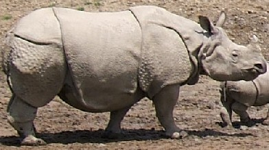 Cropped and flipped from Image:Indian Rhinoceros.jpg, a cc-by-sa-2.0 image